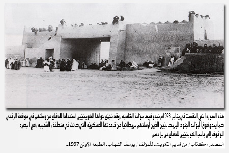 this picture for war in kuwait,1928.